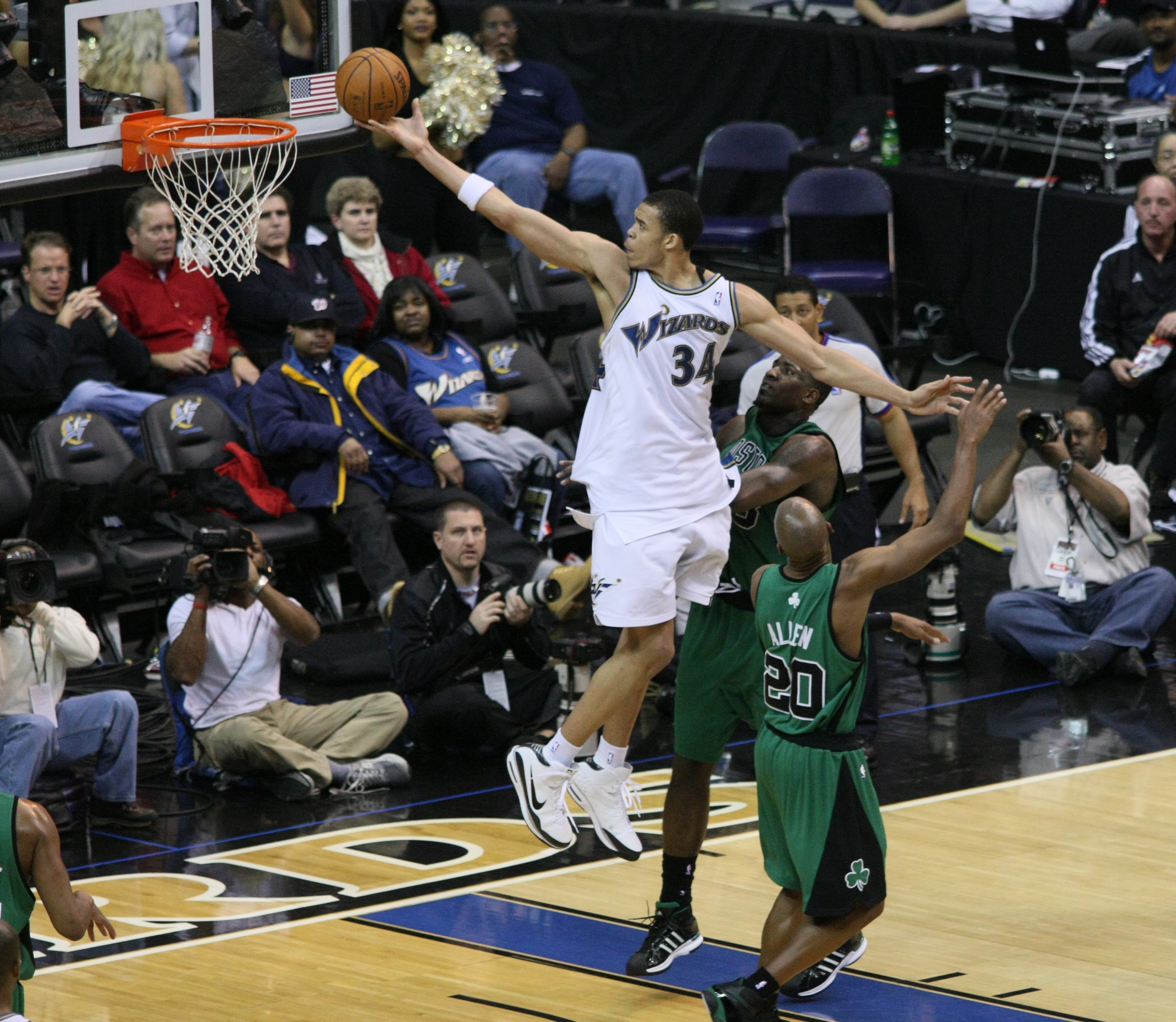 JaVale McGee goes for the basketball